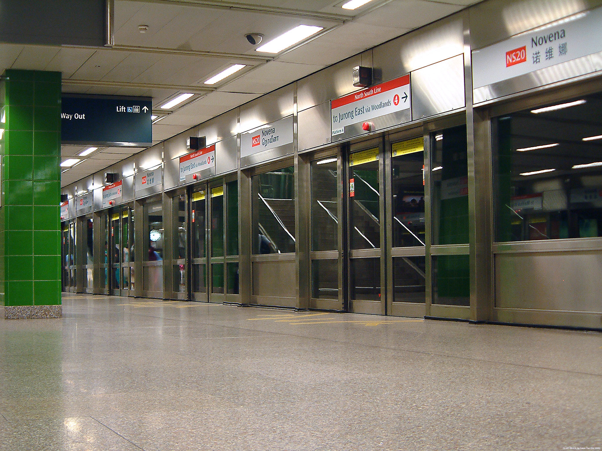 This is the North Bound Train platform at Novena Station, with its distinctive bright green tiles Created/Taken by Calvin Teo October 2005